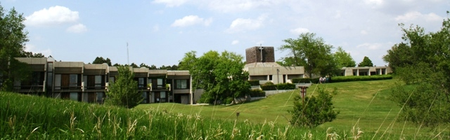 A photograph of the south side of Christ the King Priory, featuring the monastic cloister (left), church (center), and Mission House (right).